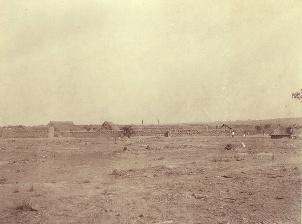 View of Deim Zubeir, South Sudan.